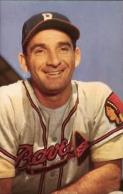 Boston Braves player Sid Gordon in 1952/1953.